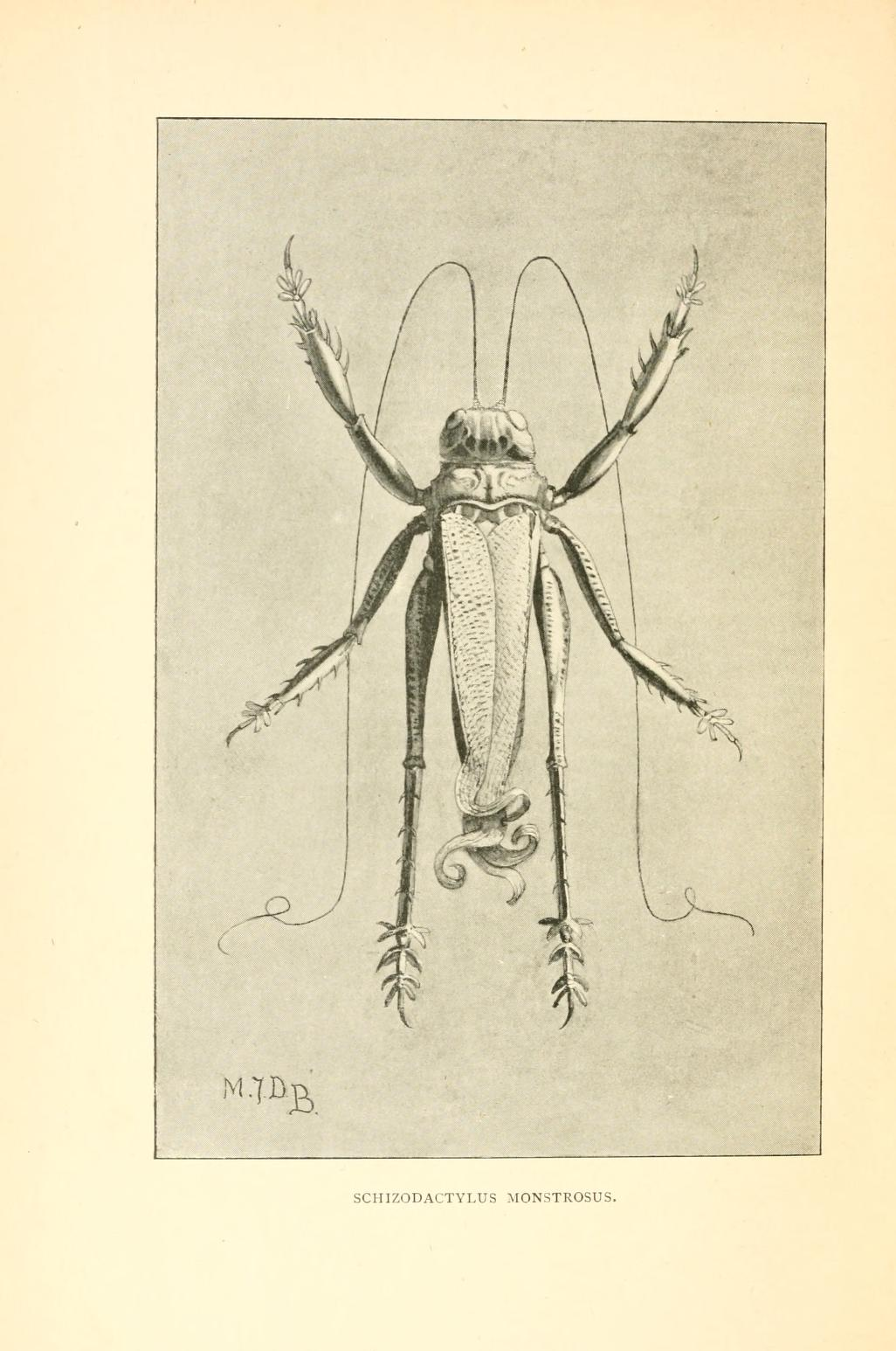 Schizodactylus monstrosus from Badenoch, LN 1899 True tales of the Insects. Chapman and Hall.